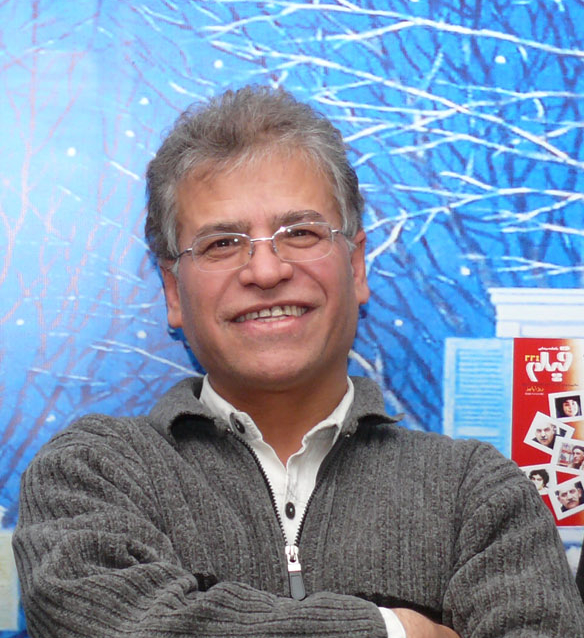 Abbas Yari, iranian film critic and editor of Film Magazine